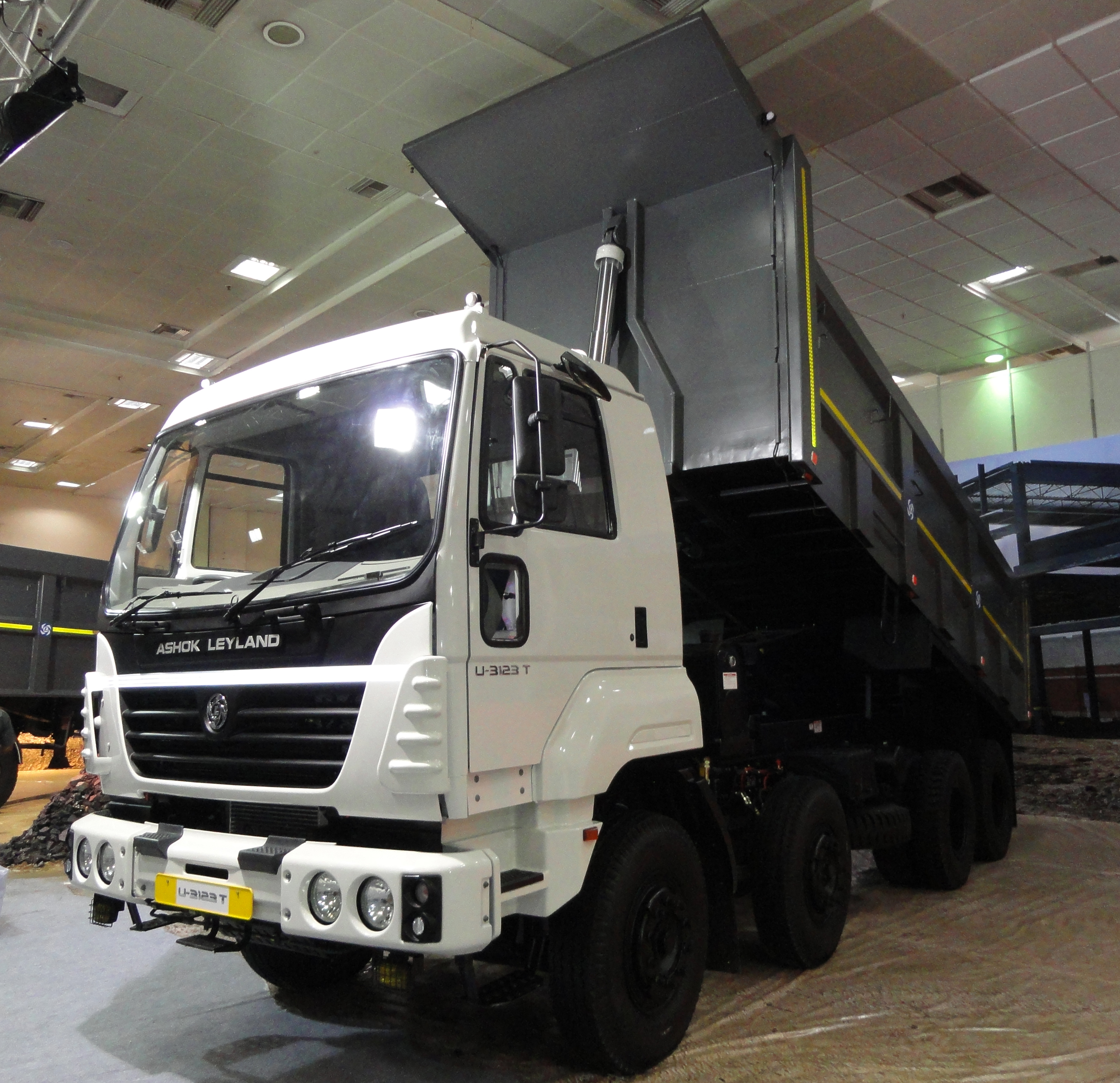 New U Truck from Ashok Leyland (U3123T)